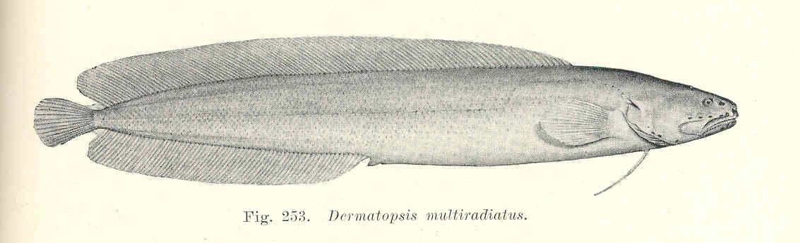 Dermatopsis multiradiatus Subject: Ophidiidae, Dermatopsis Tag: Fish